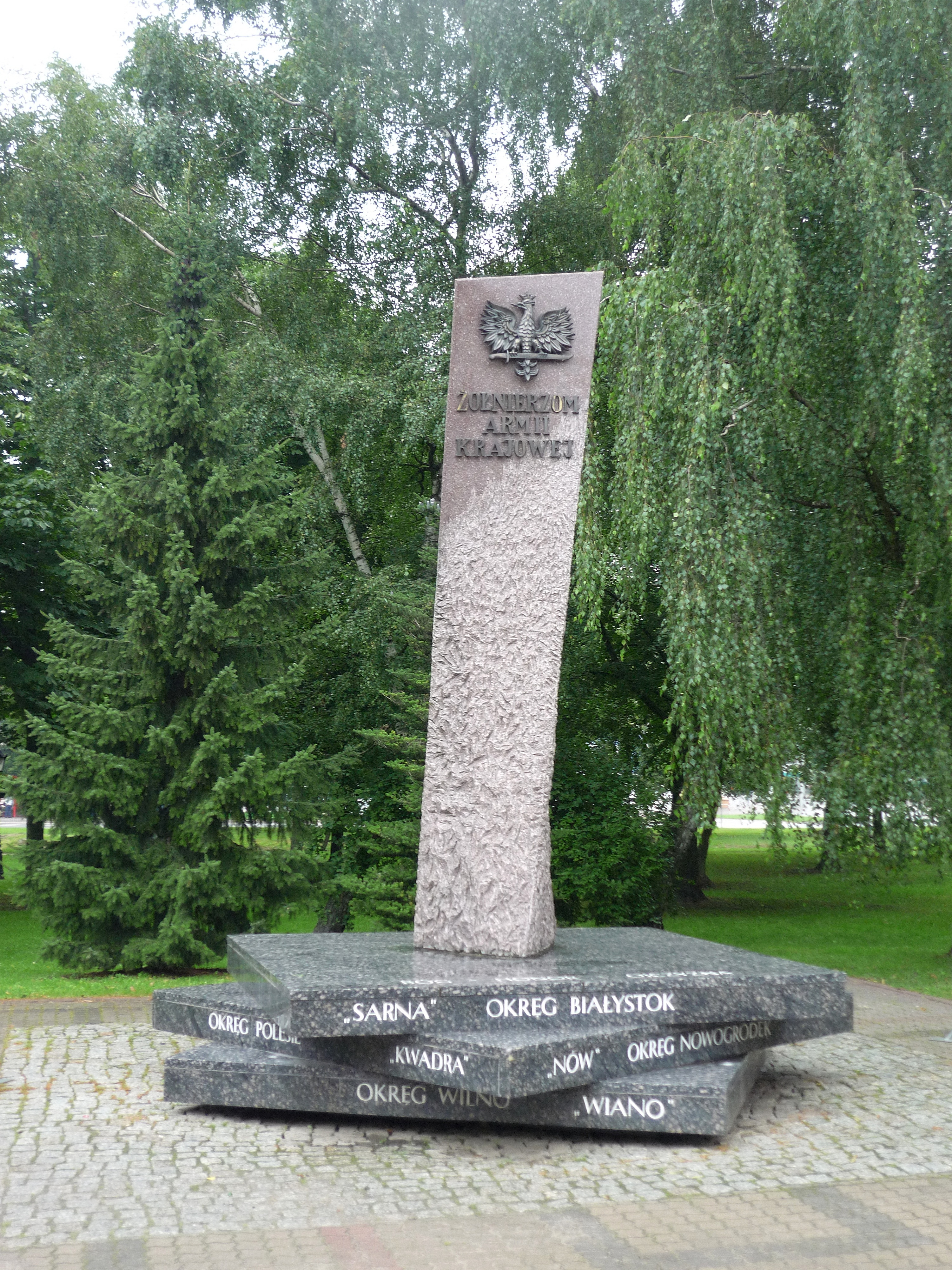 Białystok - a monument of Home Army (Armia Krajowa) soldiers